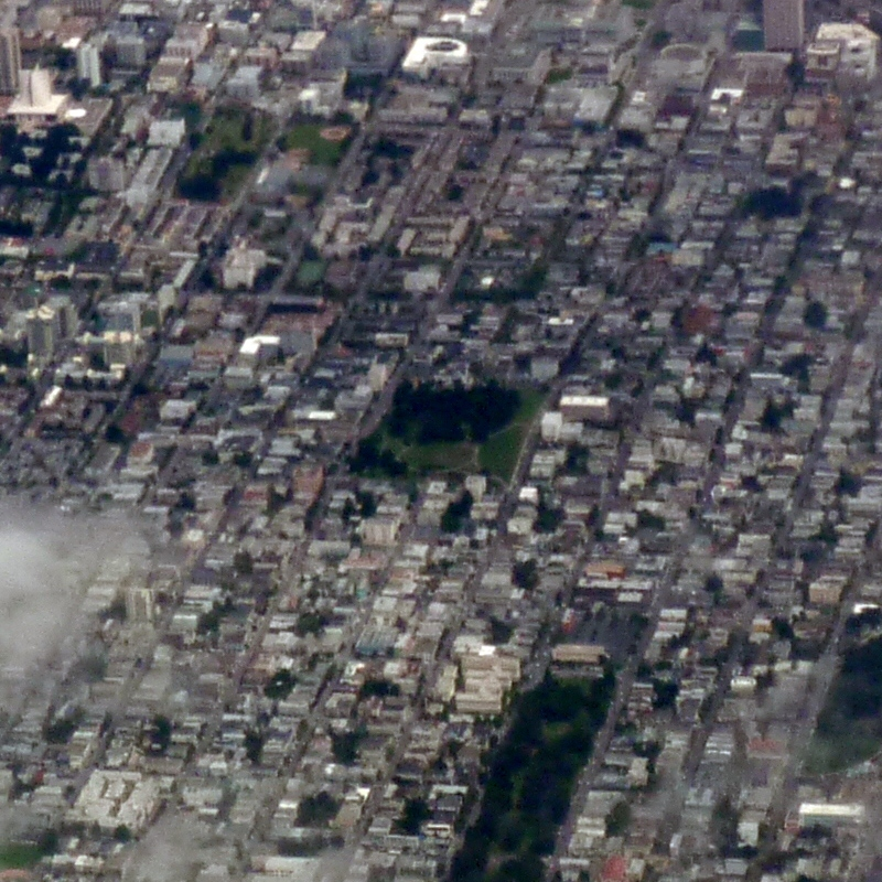 Alamo Square from the air in May 2010.